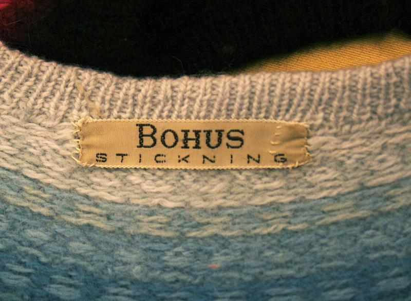 Bohus Stickning garment label